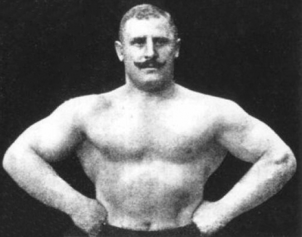 Weisz Richard 1908 matchbox label.